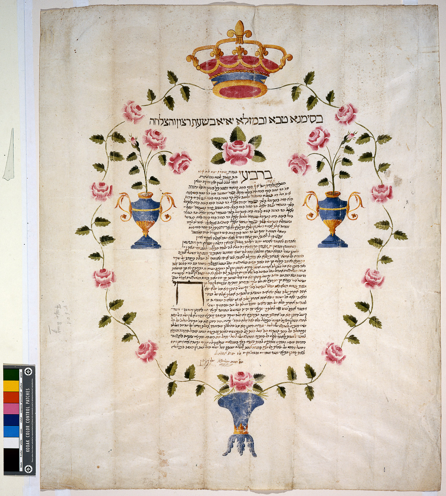 Ketubah from The Ketubot Collection of the National Library of Israel Faro, Portugal, 1841 Groom: Judah, son of Mas'oud, son of Solomon, son of Judah, son of Moses, son of Mordecai, son of Solomon, son of Mordecai Abuzaglo Bride: Freha (or Freja), daughter of Joseph, son of Judah Adrehi Parchment, watercolor, pen and ink H: 75, W: 62.2 cm Collection of The Israel Museum, Jerusalem Purchase, Ari Ackerman Foundation